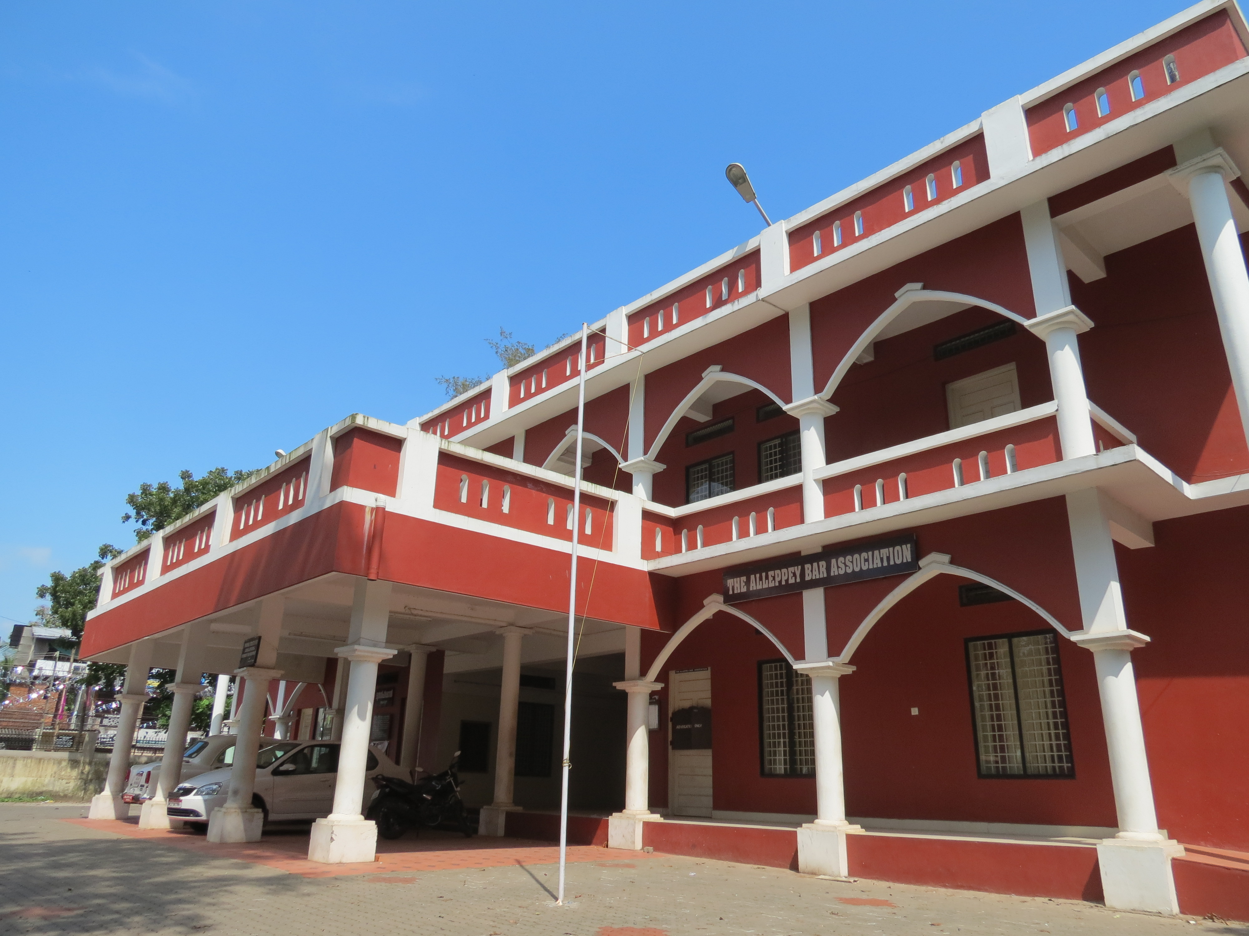 Alappuzha District Court Bar Association building